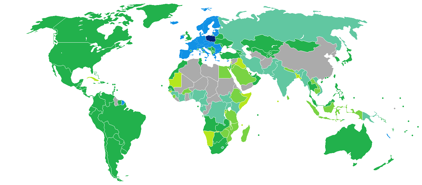 Visa requirements for Polish citizens Poland Freedom of movement Visa not required Visa on arrival eVisa Visa available both on arrival or online Visa required prior to arrival